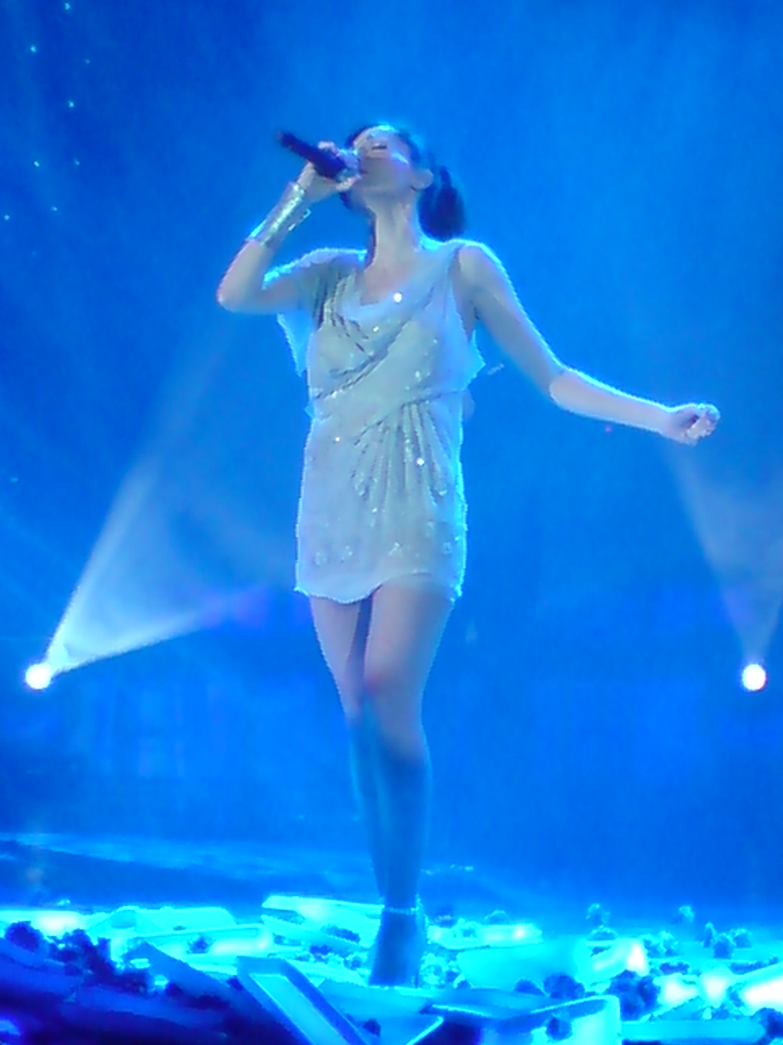 Foto of Despina Vandi at Boom club, Thessaloniki, Greece.